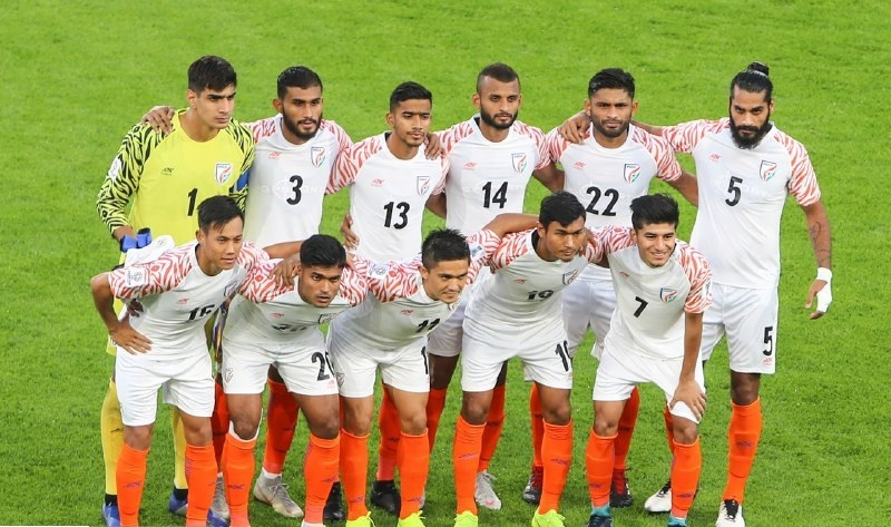 India starting XI against Thailand at 2019 AFC Asian Cup. (L to R)Front Row: Uddanta Singh, Pritam Kotal, Sunil Chhetri, Halicharan Nazary, Anirudh Thapa. Back Row: Gurpreet Sandhu, Subhashis Bose, Ashique Kuruniyan, Pranoy Halder, Anas Edathodika, Sandesh Jhingan.